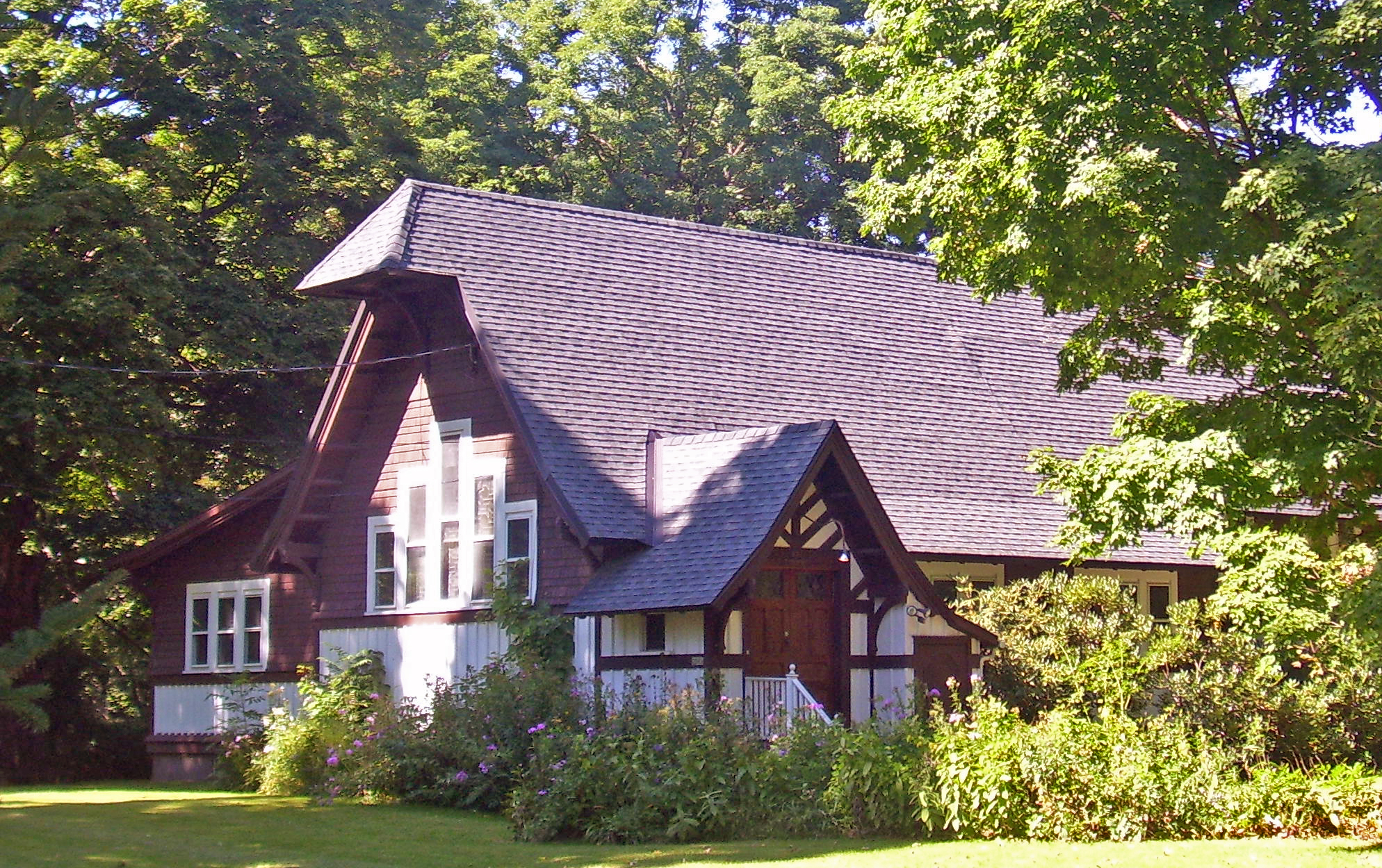 Former Trinity Episcopal Church building, Claverack, NY, USA. Now a house